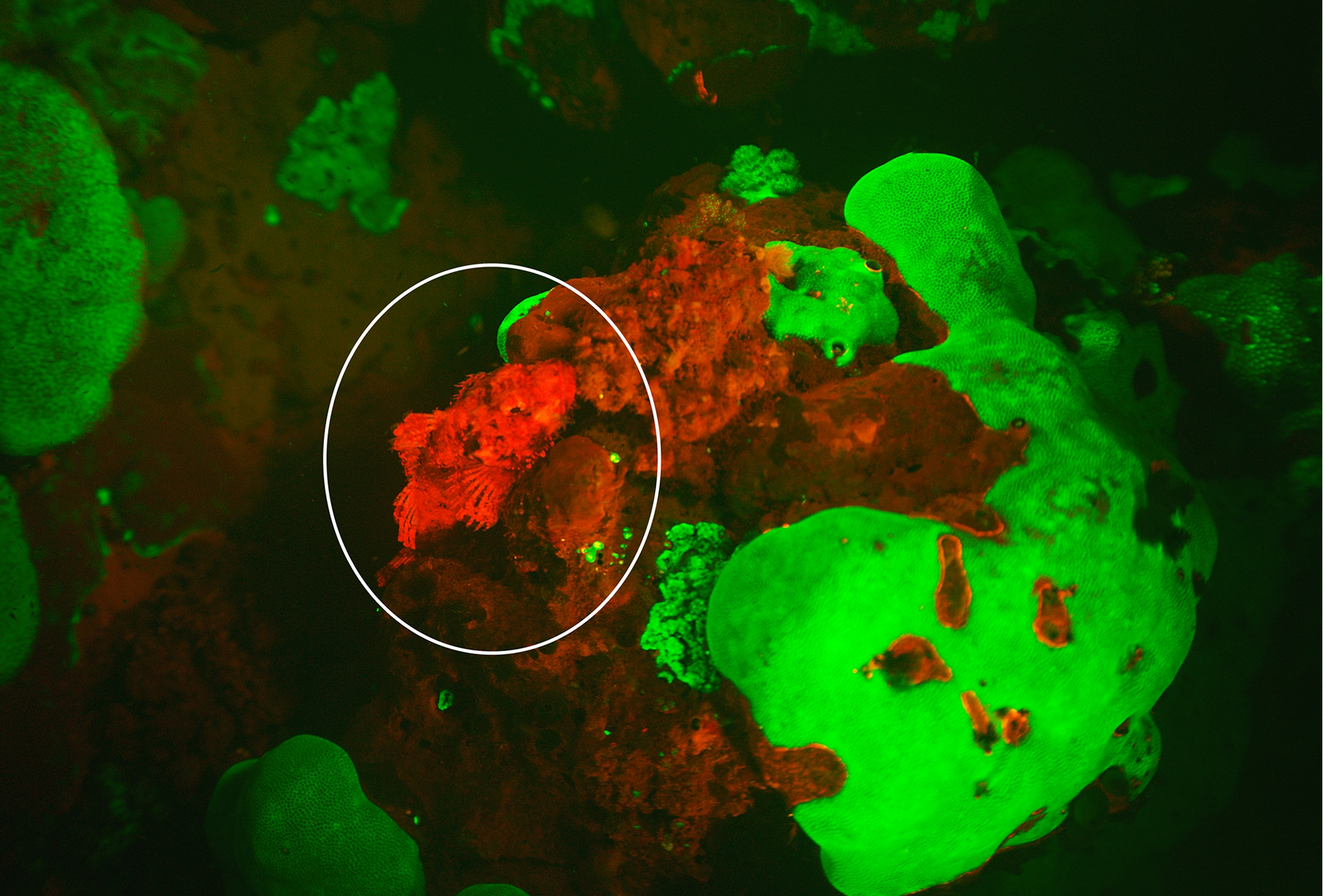 Images of reef fishes fluorescing in their natural habitat captured with a Red Epic video camera at night in the Solomon Islands. A red fluorescing scorpionfish, Scorpaenopsis papuensis, perched on red fluorescing algae.